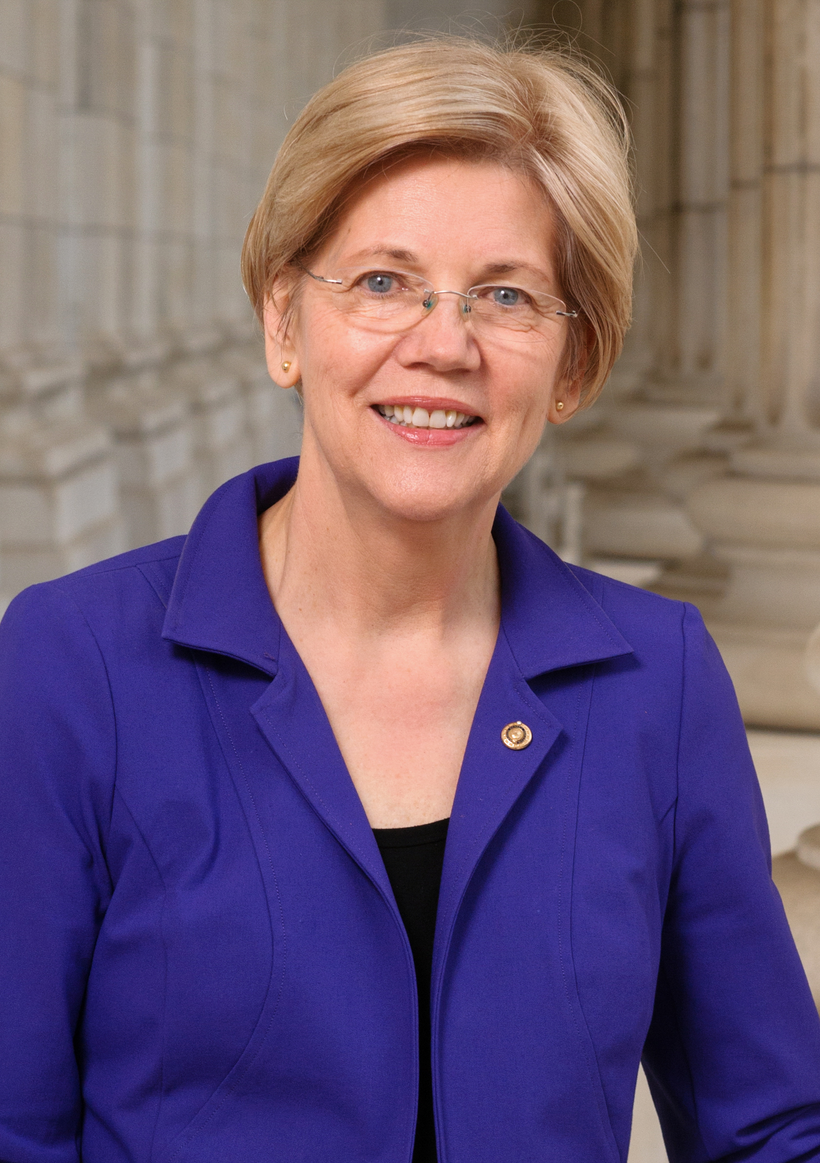 Official portrait of U.S. Senator Elizabeth Warren (D-MA)